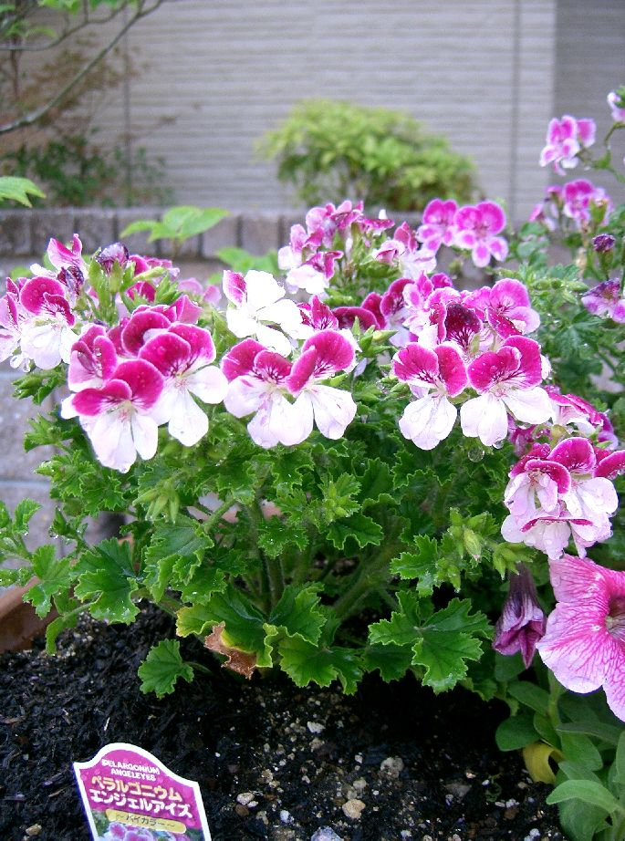 Pelargonium (Angel Group) 'Angeleyes', Place: Osaka-fu Japan